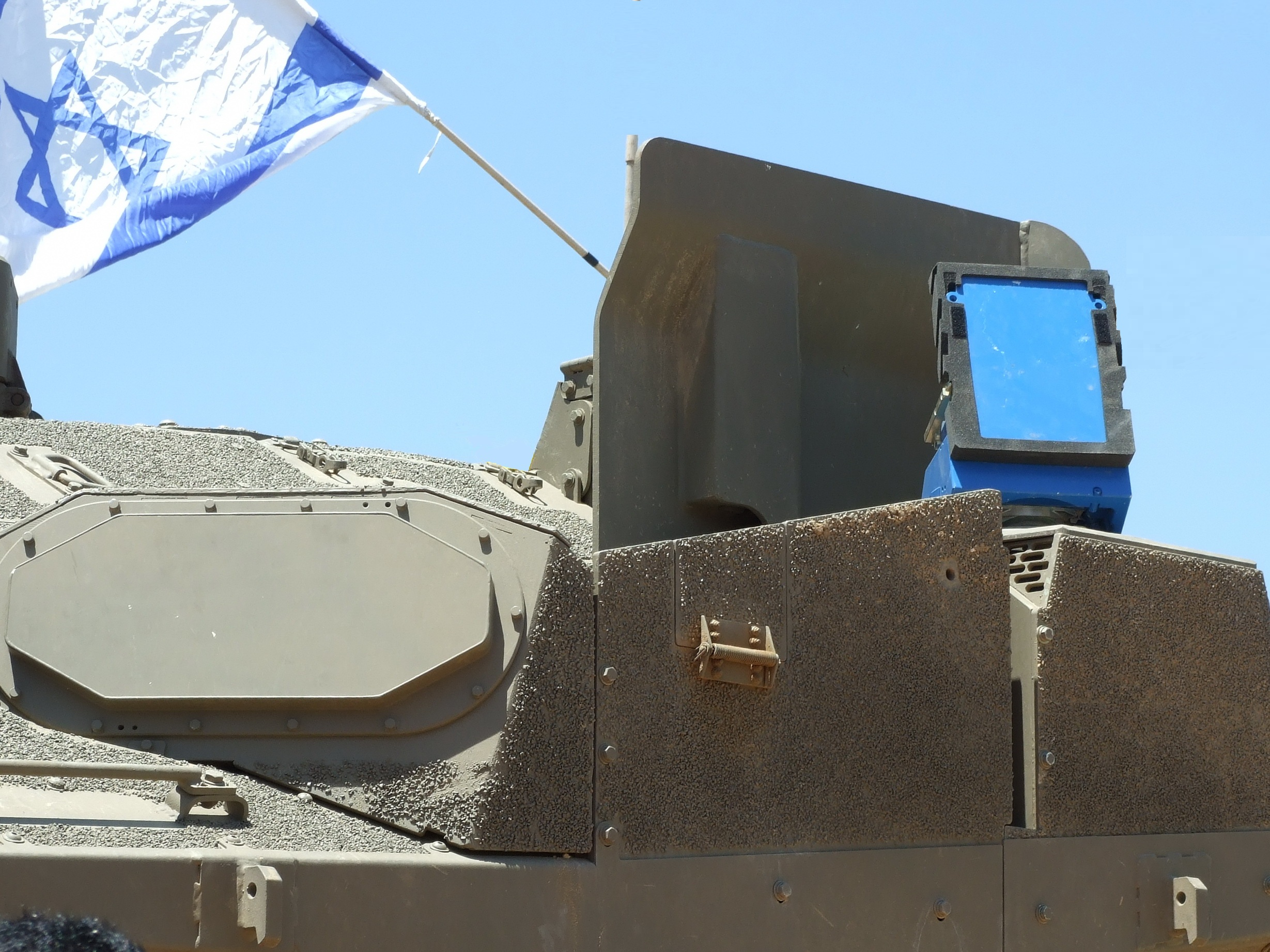 Rafael's ASPRO-A (a.k.a "Trophy") Active Protection System's radar (Elta EL/M-2133 WindGuard) and dummy launcher (blue) atop Merkava Mark 4 tank